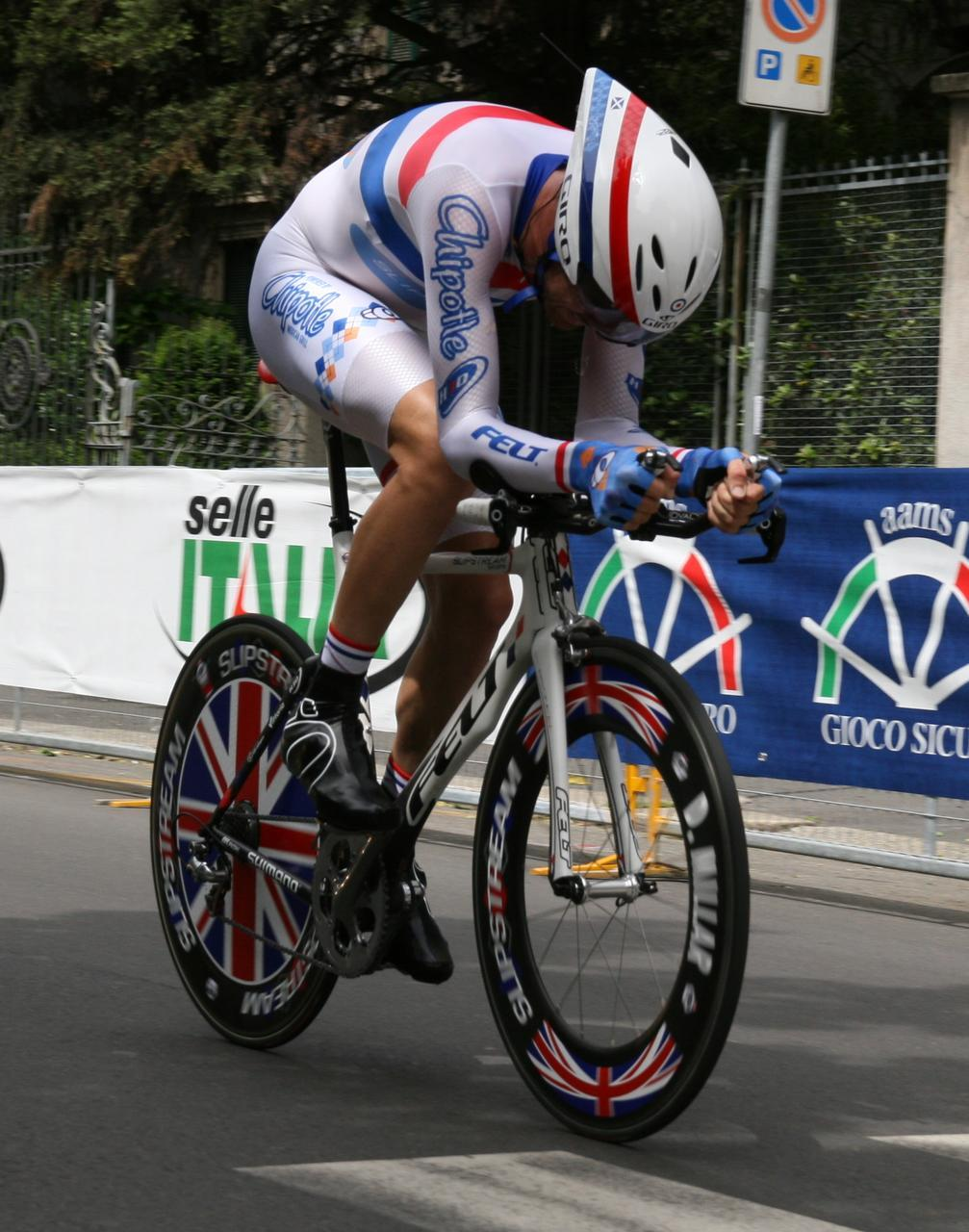 David Millar during the last stage of 2008 Giro d'Italia.